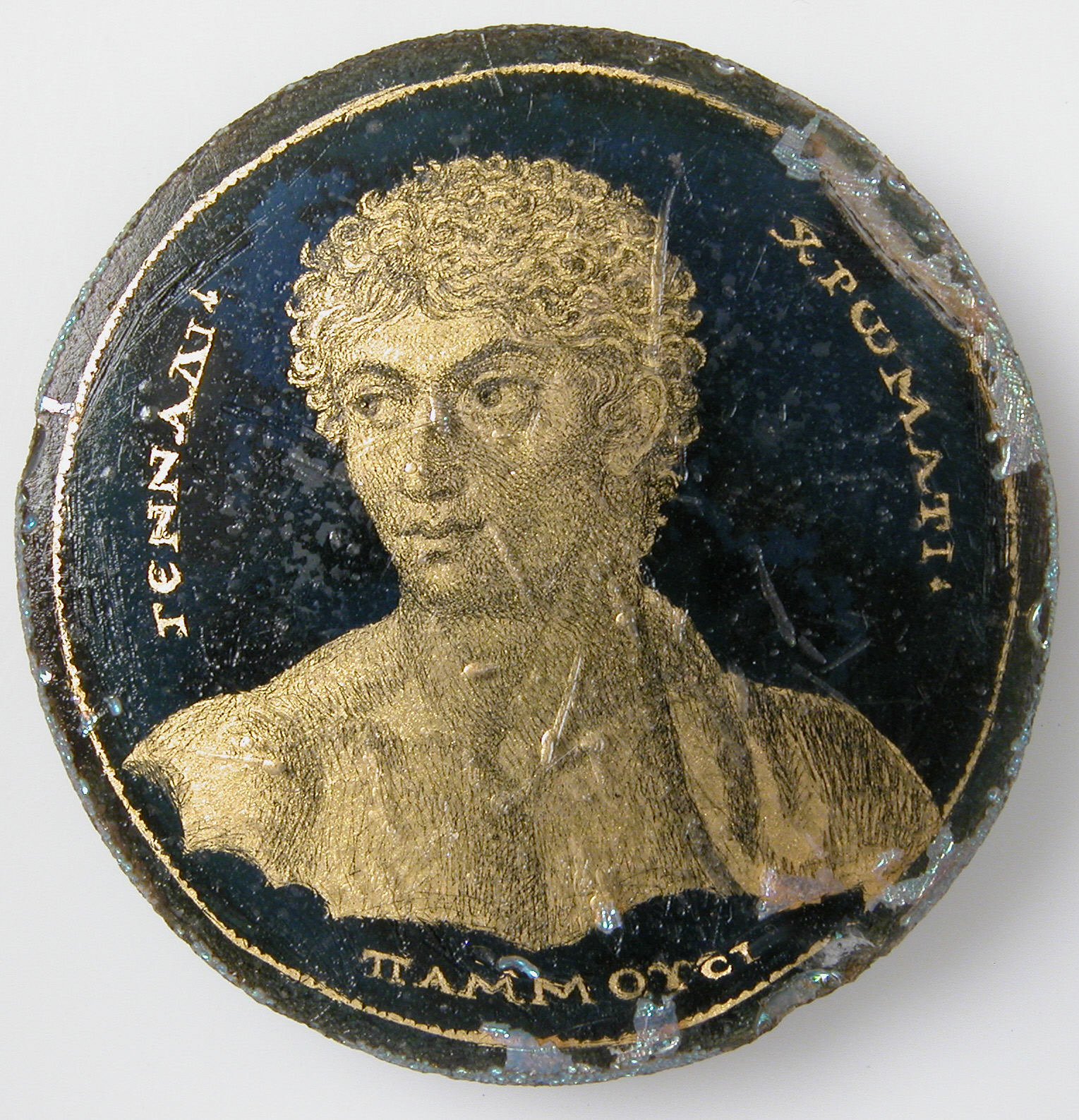 Roman; Medallion; Glass-Gold glass